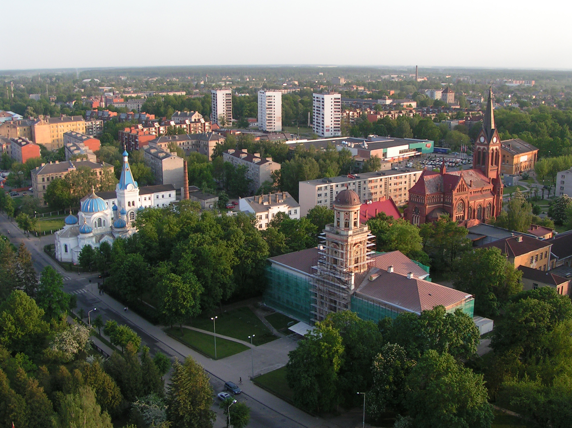 Aerial View of Jelgava. Academia Petrina, St. Simeon and Anna Orthodox Church (left), Catholic Church (right). Photo taken from air balloon.